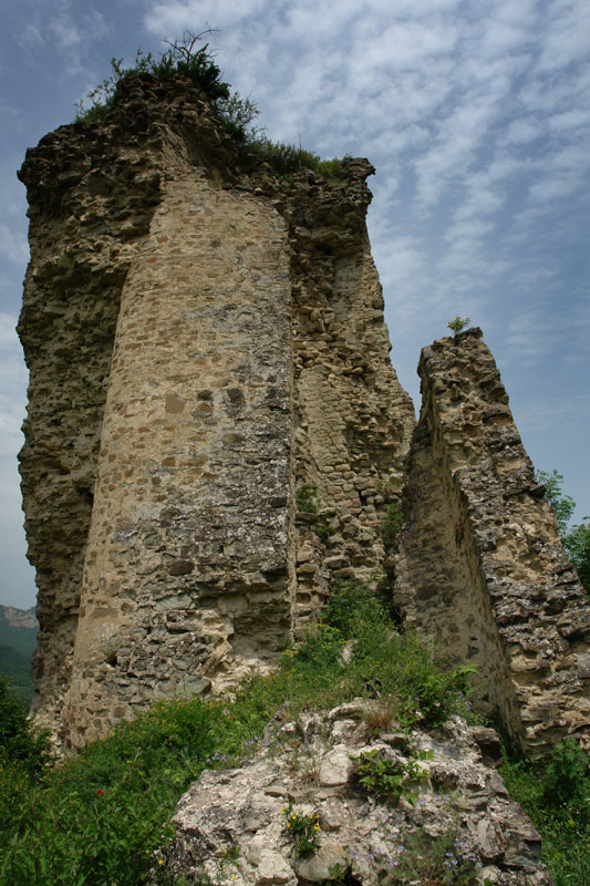 Ujarma Kakheti. City-fortress Ujarma is situated on the right bank of the river Iori, in 45 km to the east of Tbilisi